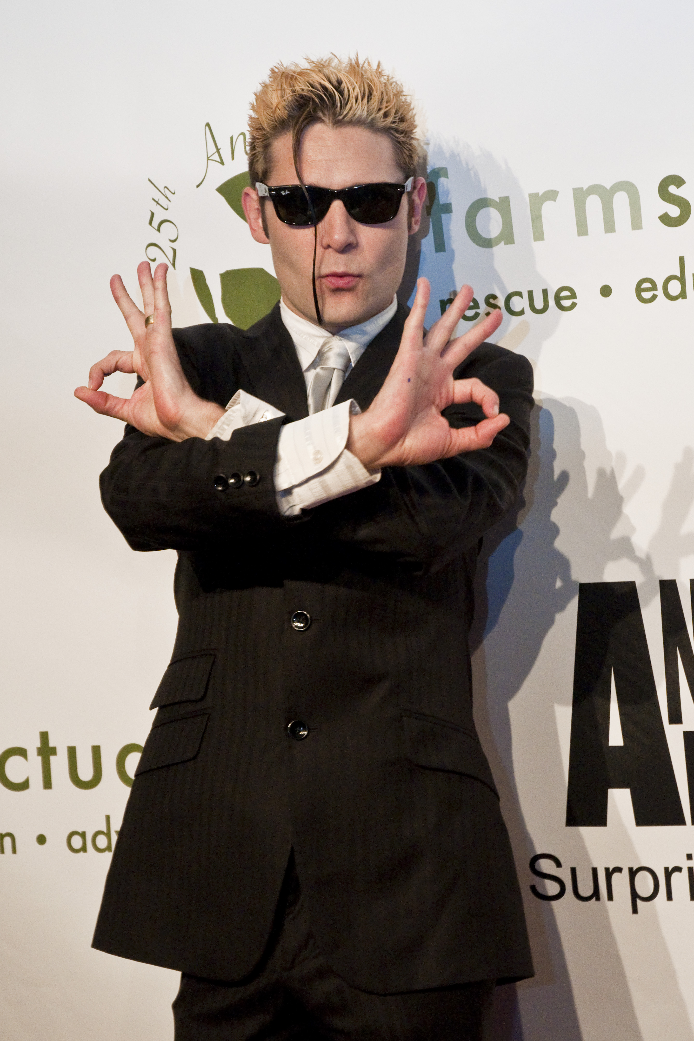 Corey Feldman at the Farm Sanctuary 25th Anniversary Gala in New York City.